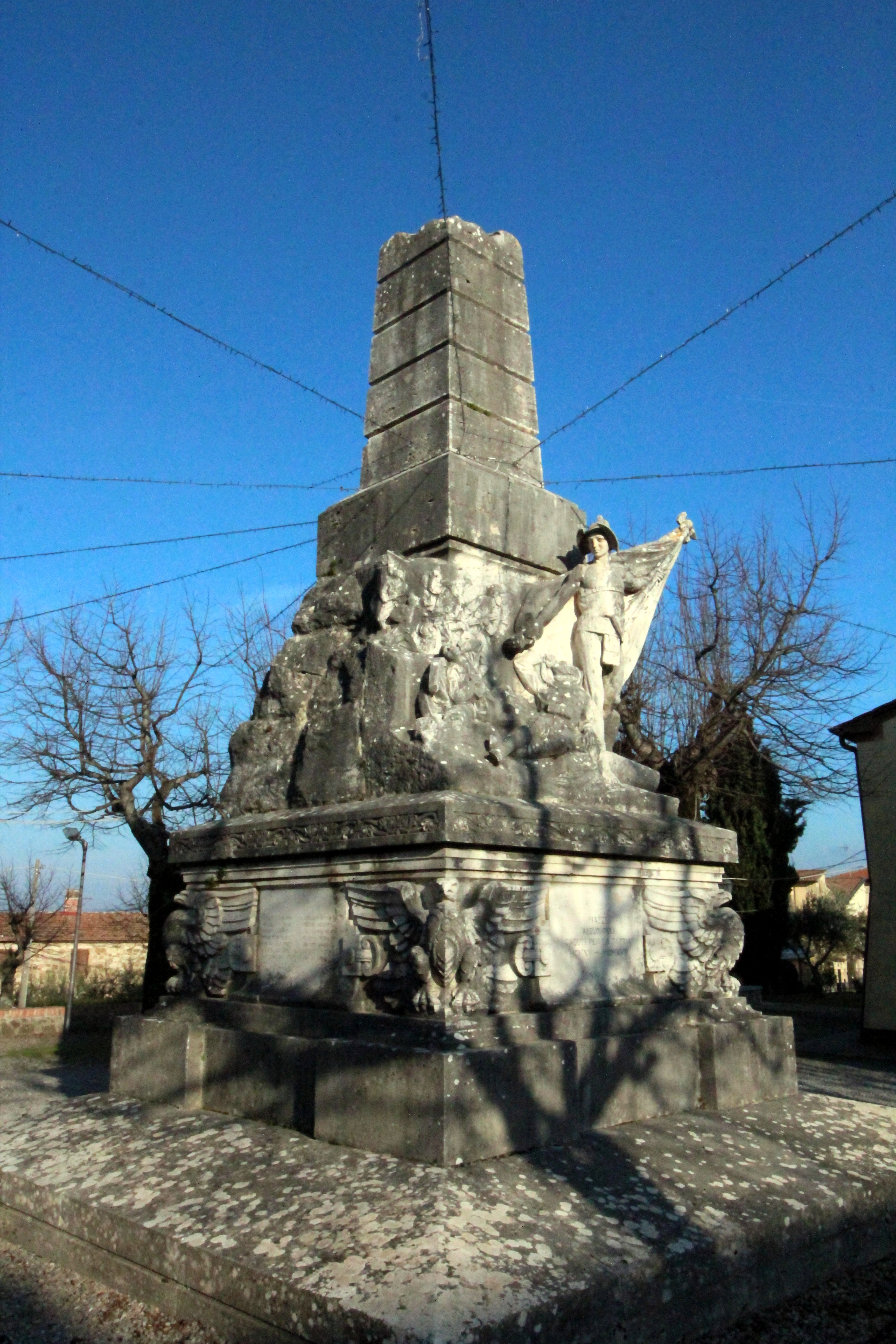 World War I and II memorial in Piazze, hamlet of Cetona, Province of Siena, Tuscany, Italy